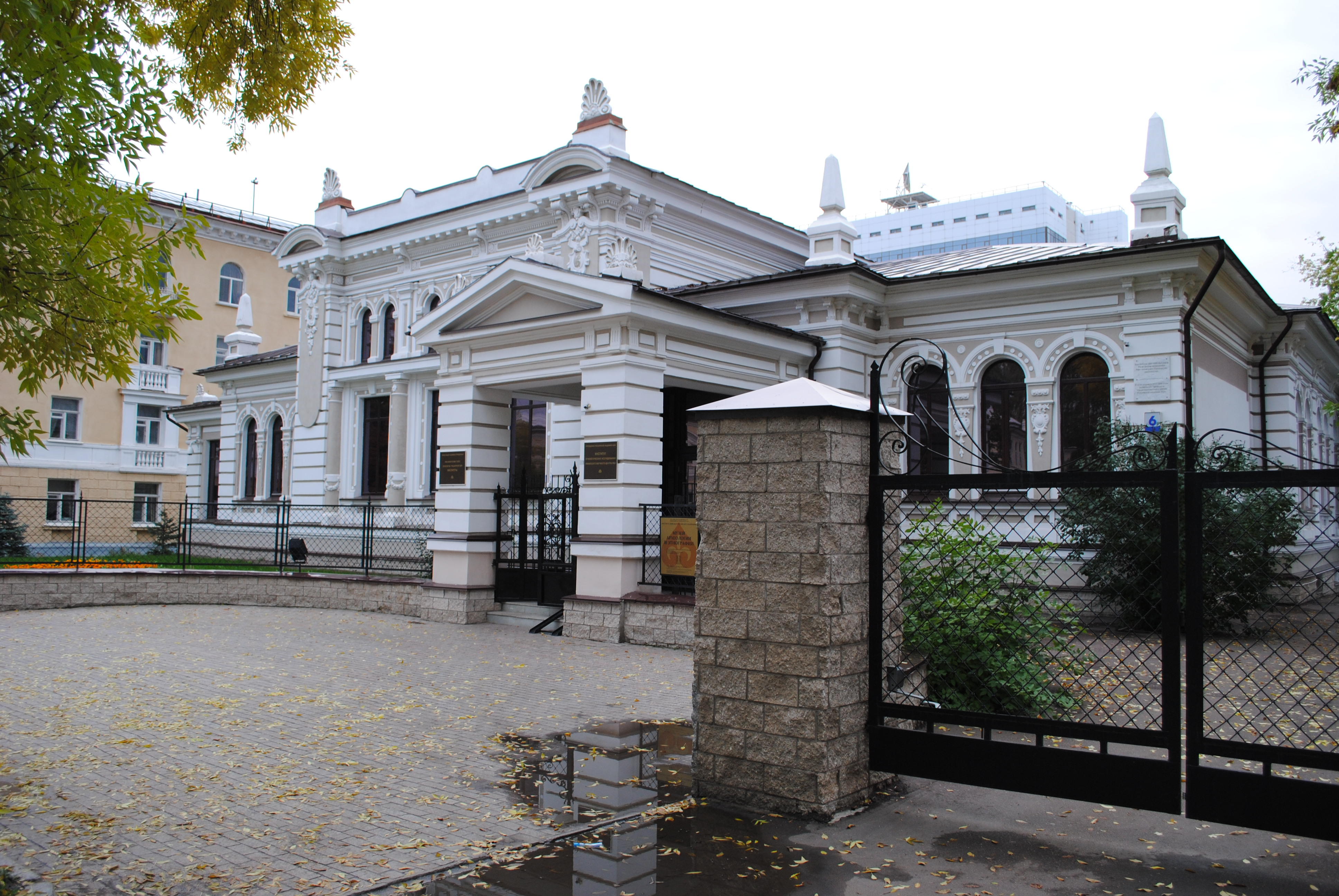 Ufa science center of Russia academy of scienceБашҡортса: Этнологик тикшеренеүзөр иституты. Рәсәй фәндәр академияҺы учреждениеһы